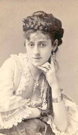 Bessie Sudlow is the stage name of Barbara Elizabeth Johnstone (22 July 1849 – 28 January 1928), who was active in New York as a burlesque performer from 1869 to 1873, then in Britain as an opera bouffe soprano from 1875 to 1880.